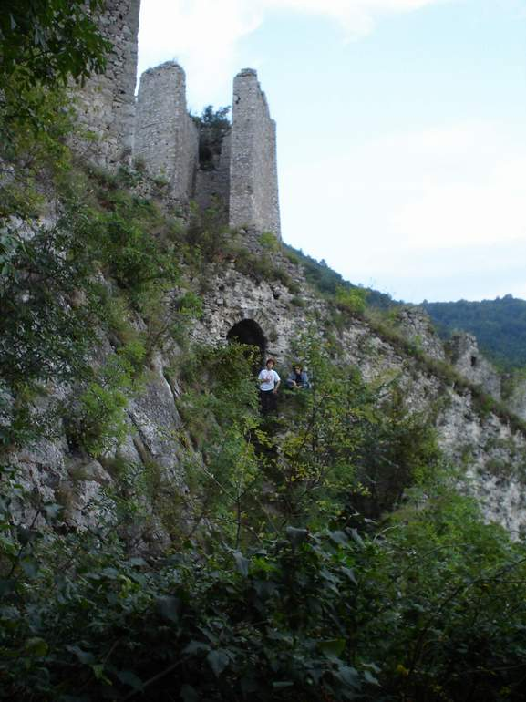 Gornji grad(Upper fort) all in weed.